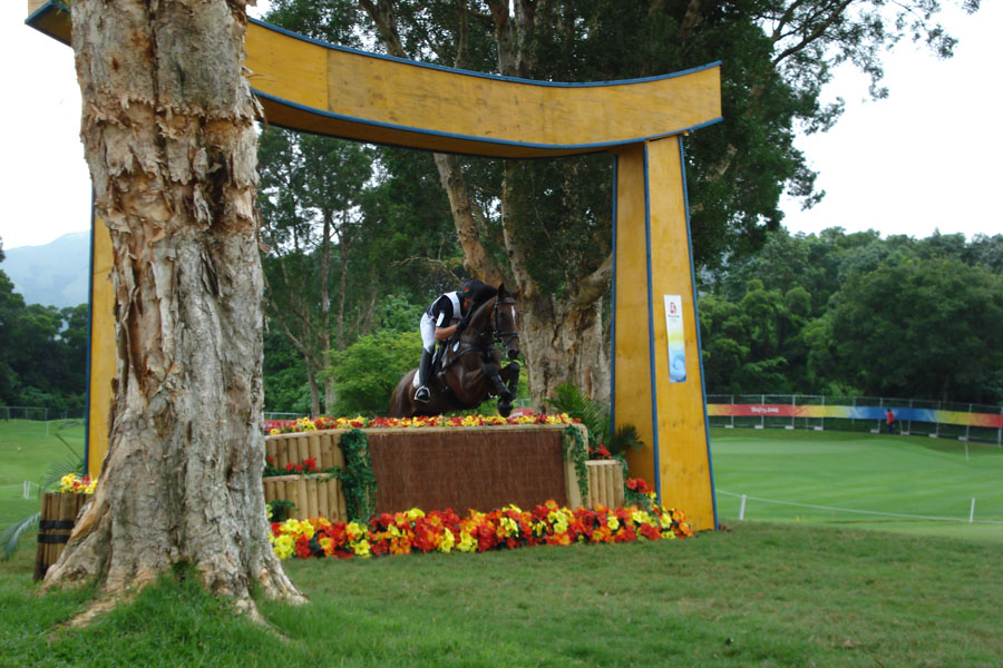 Beijing 2008 Olympic Game - Equestrian Event - Cross-Country Test of the Eventing Competition, held on The Olympic Equestrian Venue (Beas River) on 2008.8.13. Jump Number 29 - Beijing 2008 (北京2008)